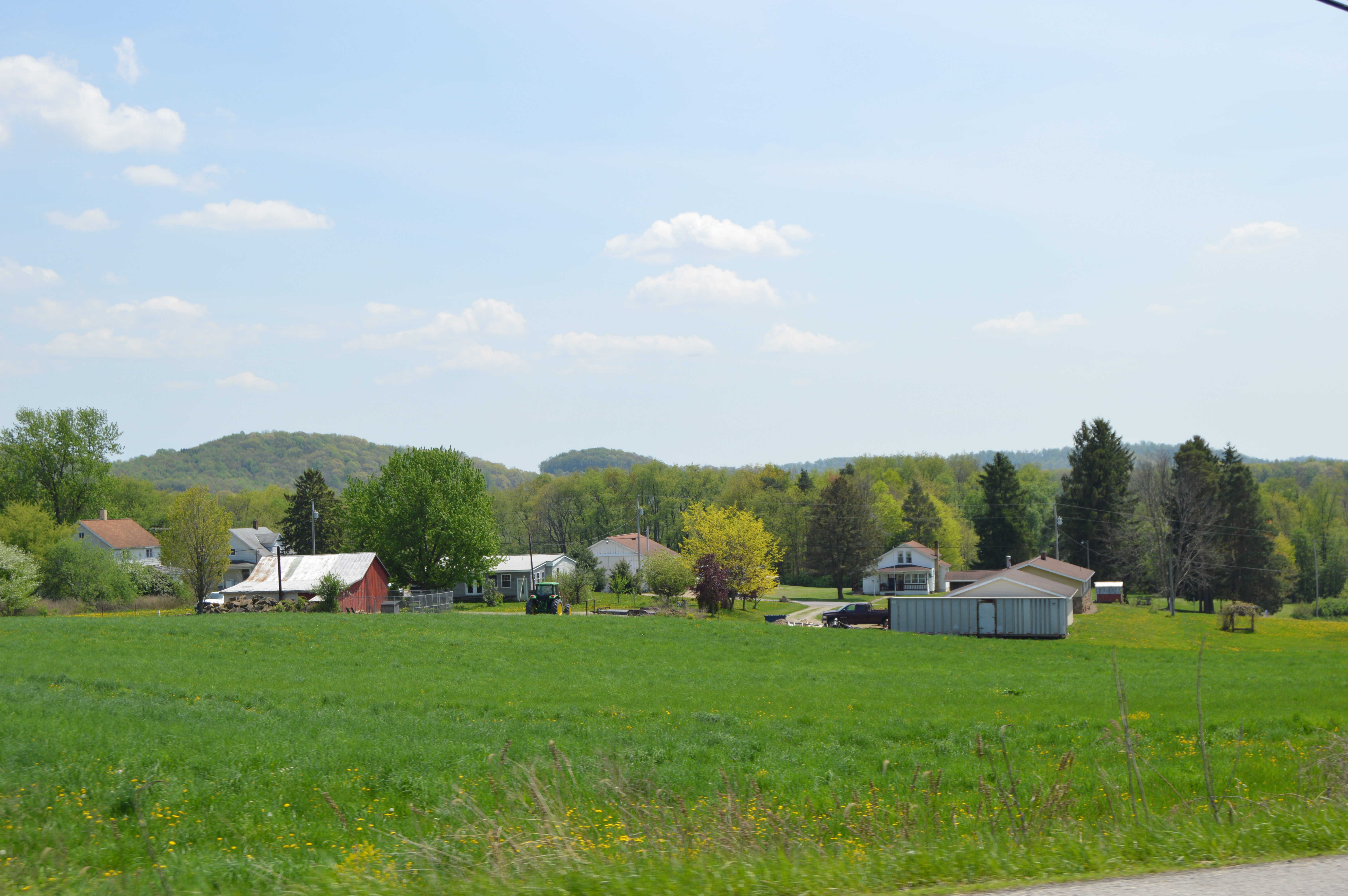 Looking south from Pennsylvania Route 210 over the small community of Georgeville in extreme northwestern East Mahoning Township, Indiana County, Pennsylvania, United States.